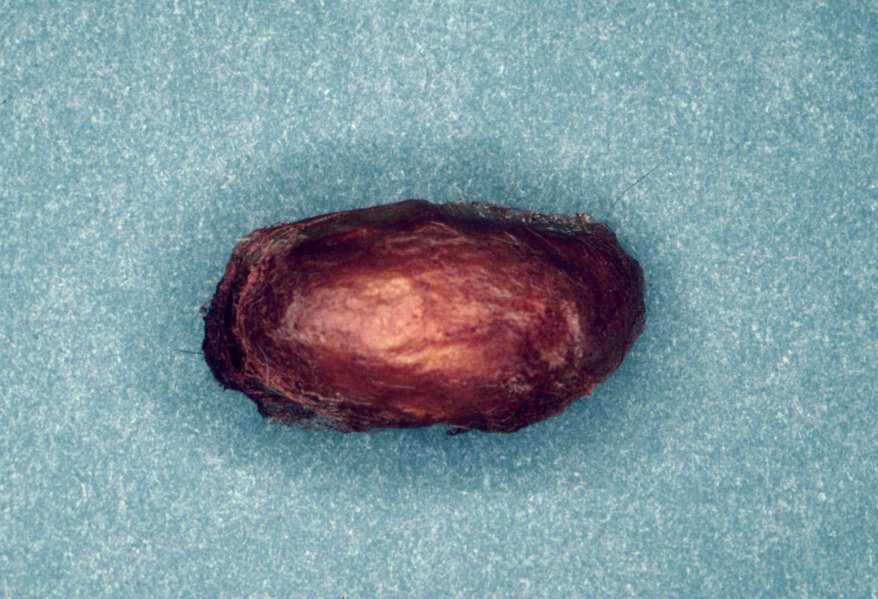 Norape_ovina_coccoon